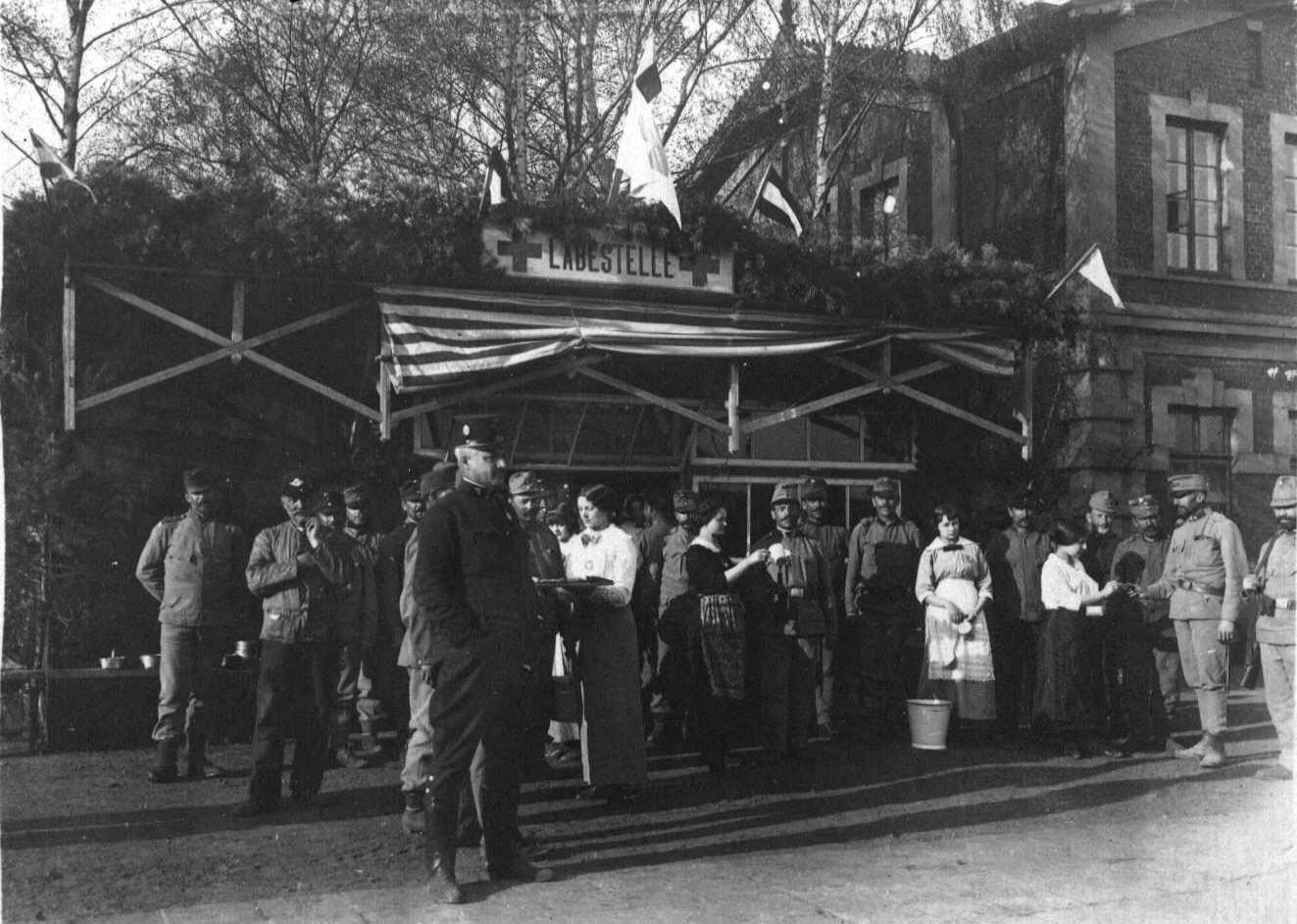 Olkusz (Polish Kingdom) - Food delivery by ladies from the Women's League at the 1915 railway station